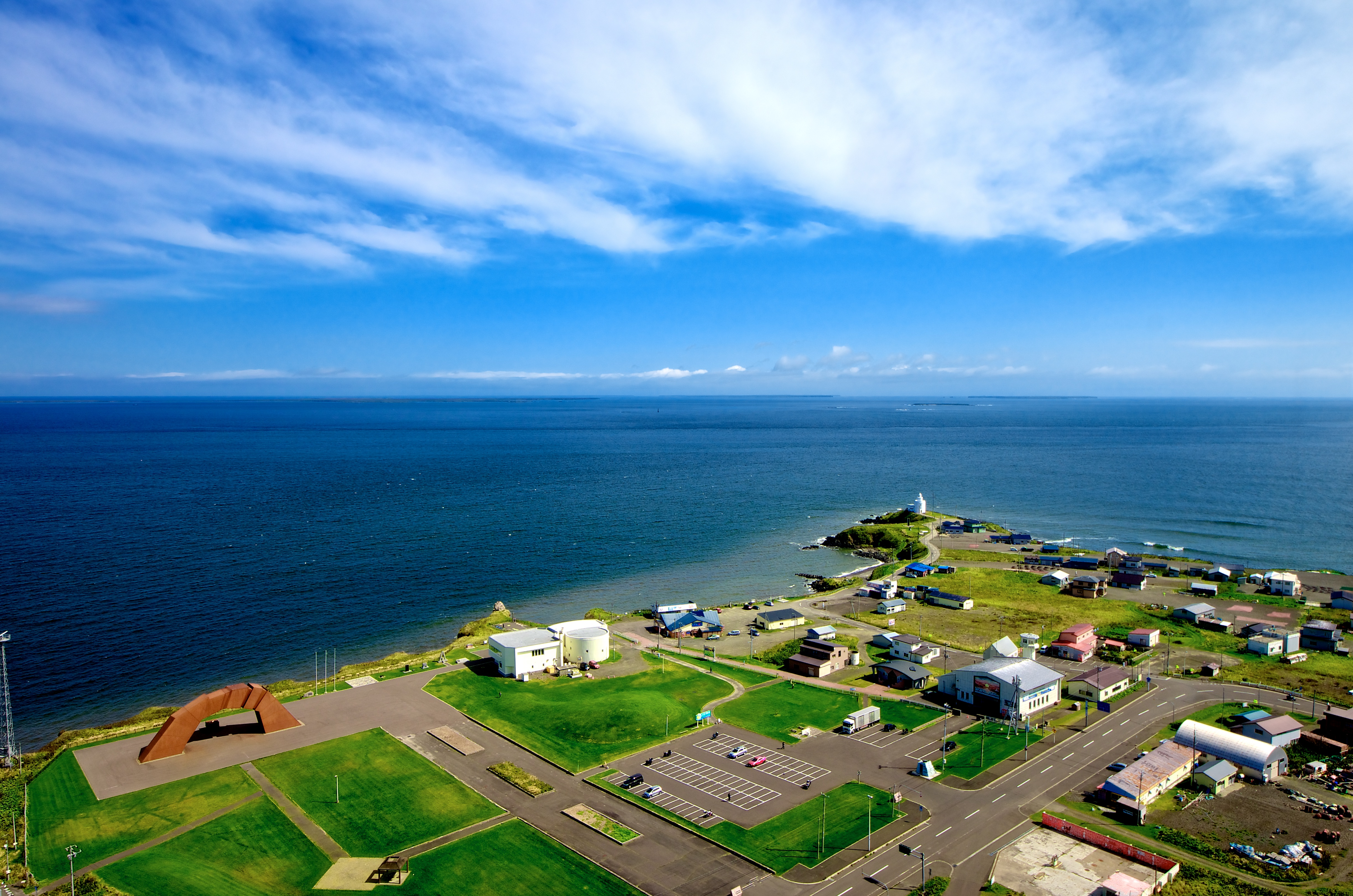 Cape Nosappu in Nemuro, Hokakido, Japan.